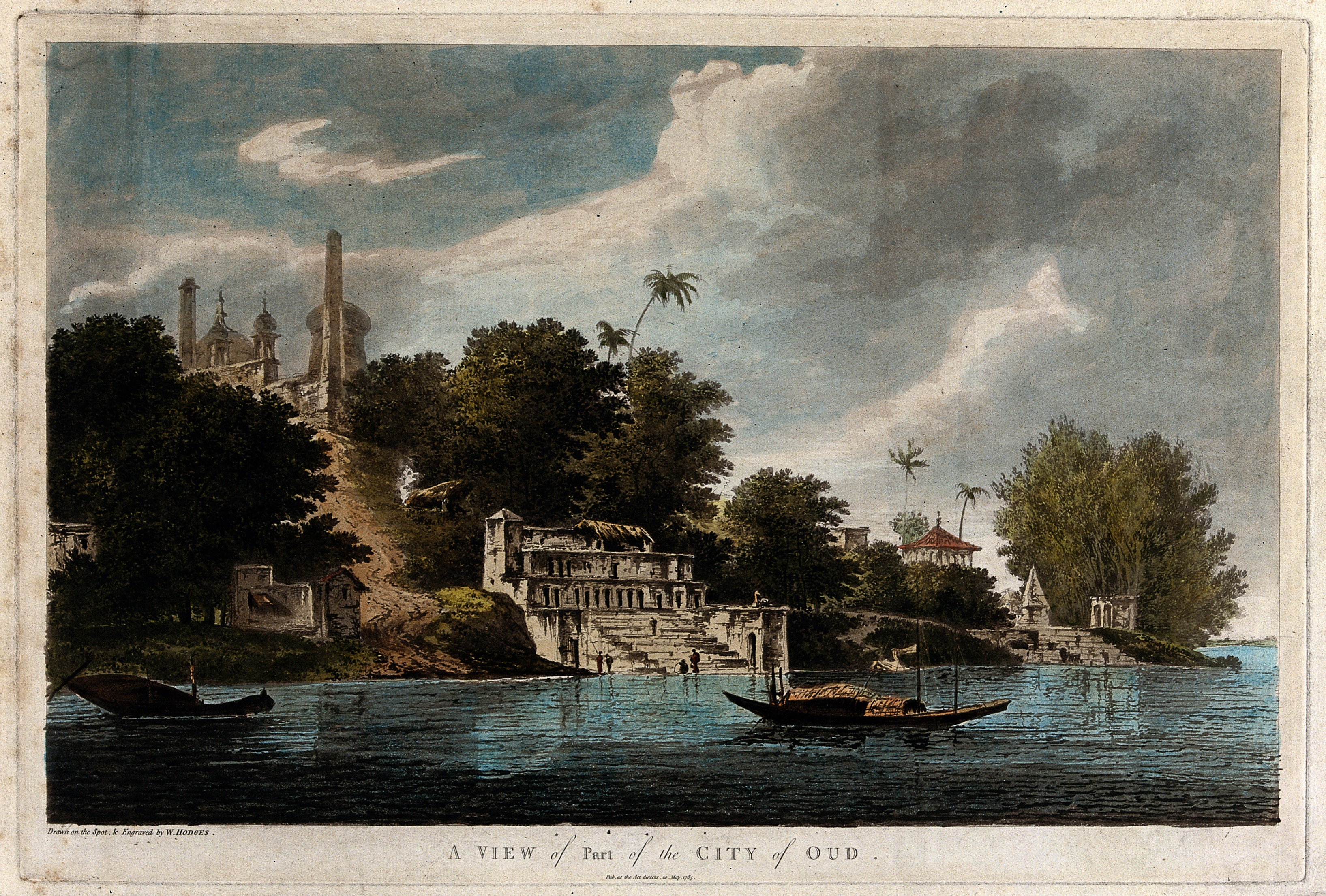 Ayodhya seen from the river Ghaghara, Uttar Pradesh. Coloured etching by William Hodges, 1785. Iconographic Collections Keywords: William Hodges